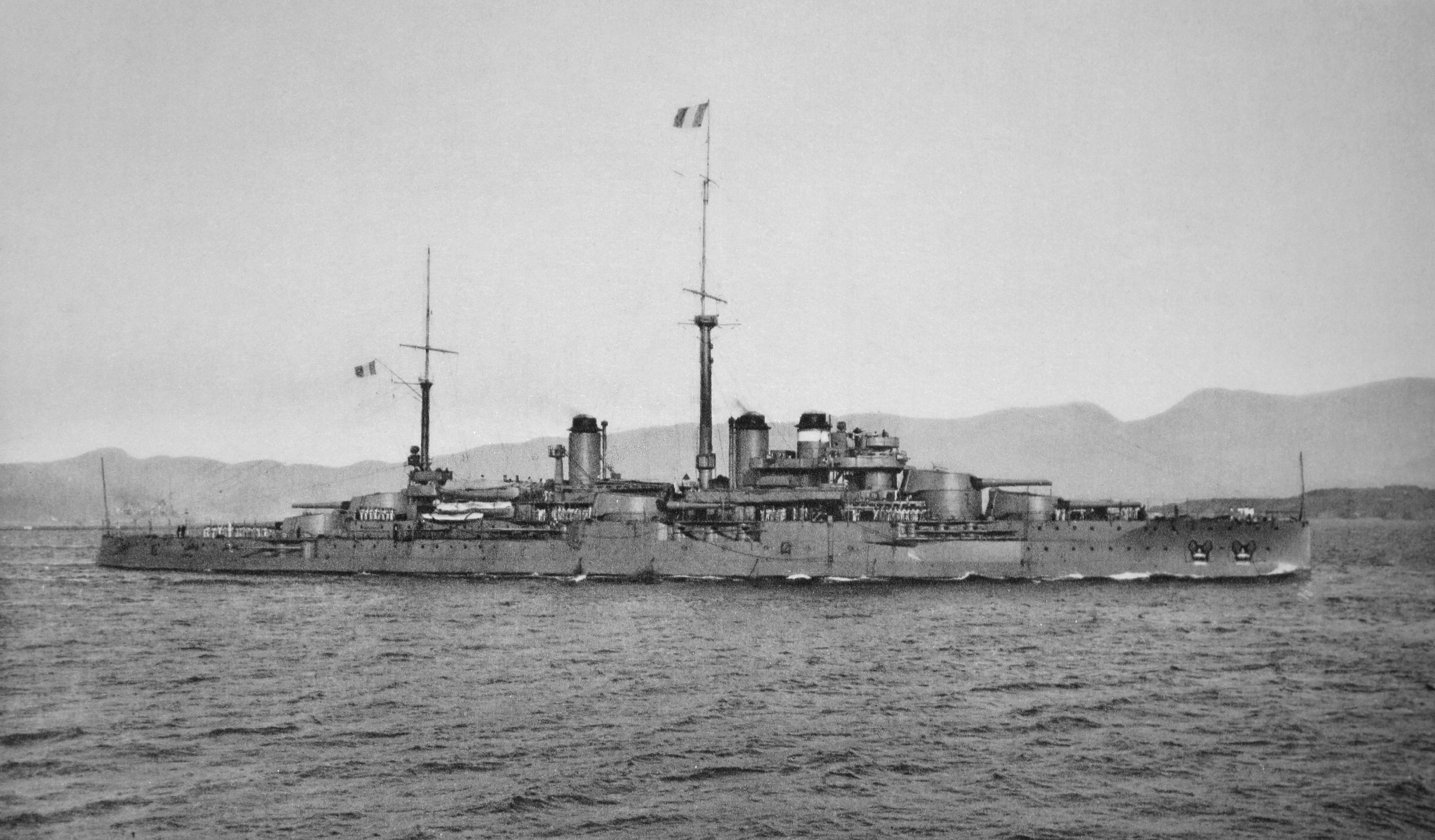 French battleship Courbet